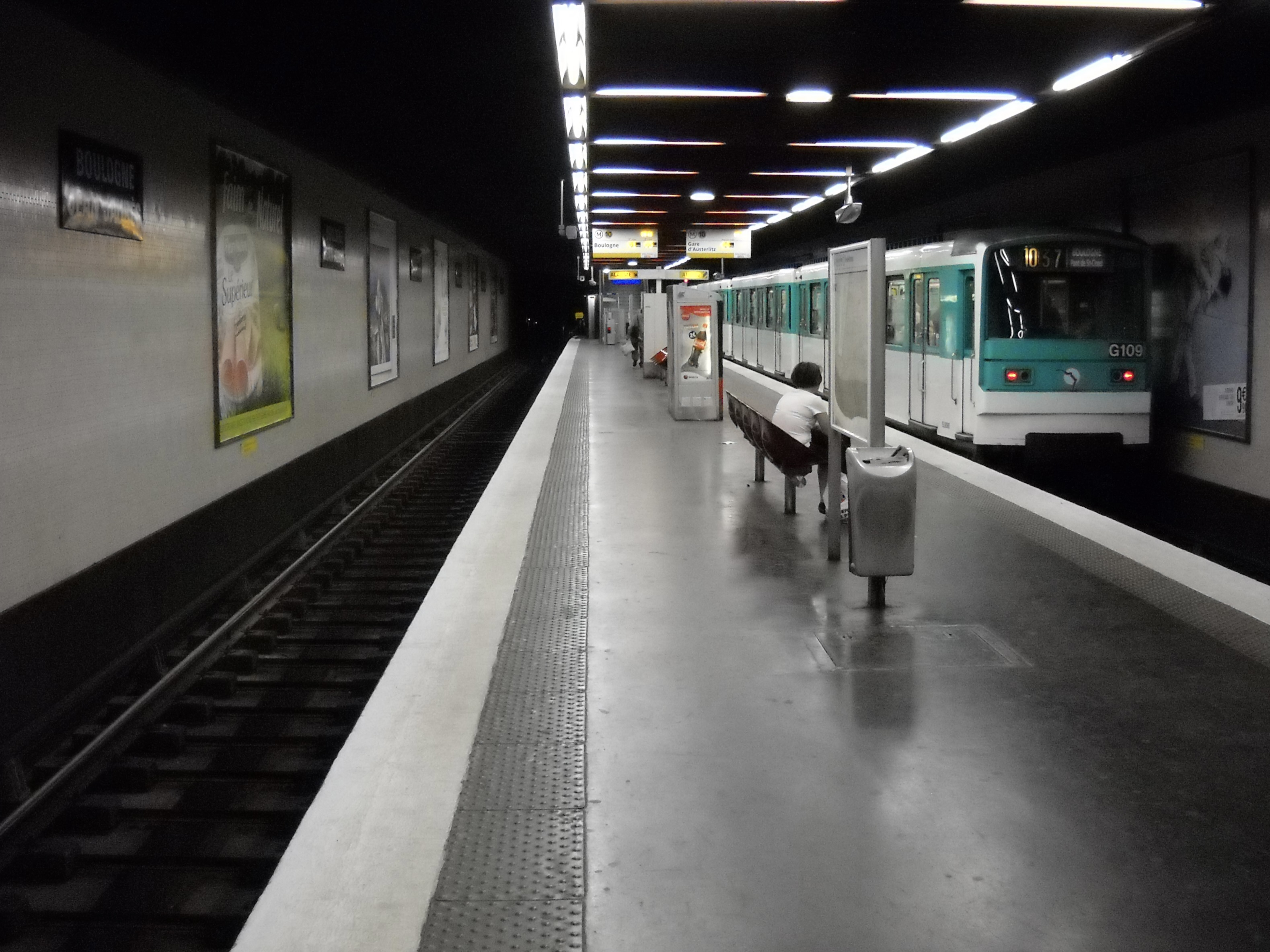 Boulogne-Jean Jaurès station, on Paris metro line 10.